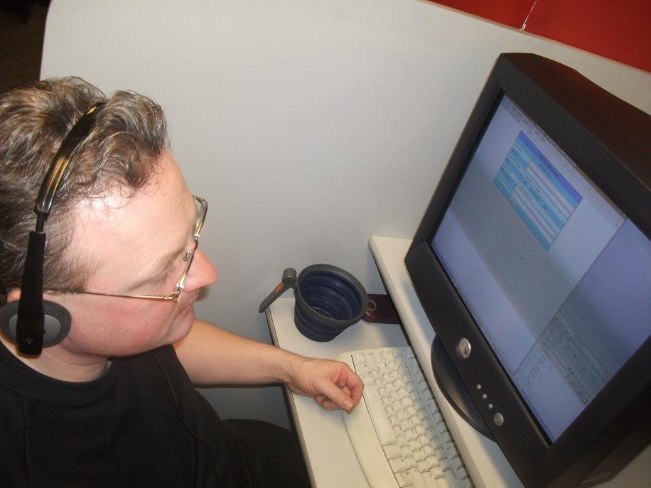 Summary: Call centre employee